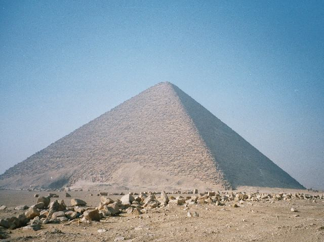 The Red Pyramid at Dashur, Egypt.